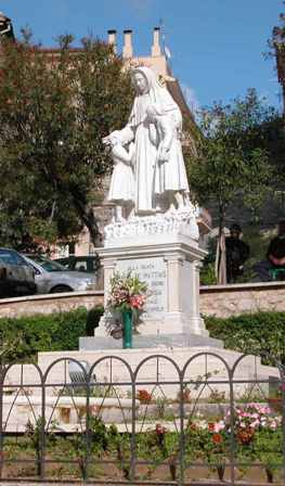 Monumento to Santa Maria De Mattias.